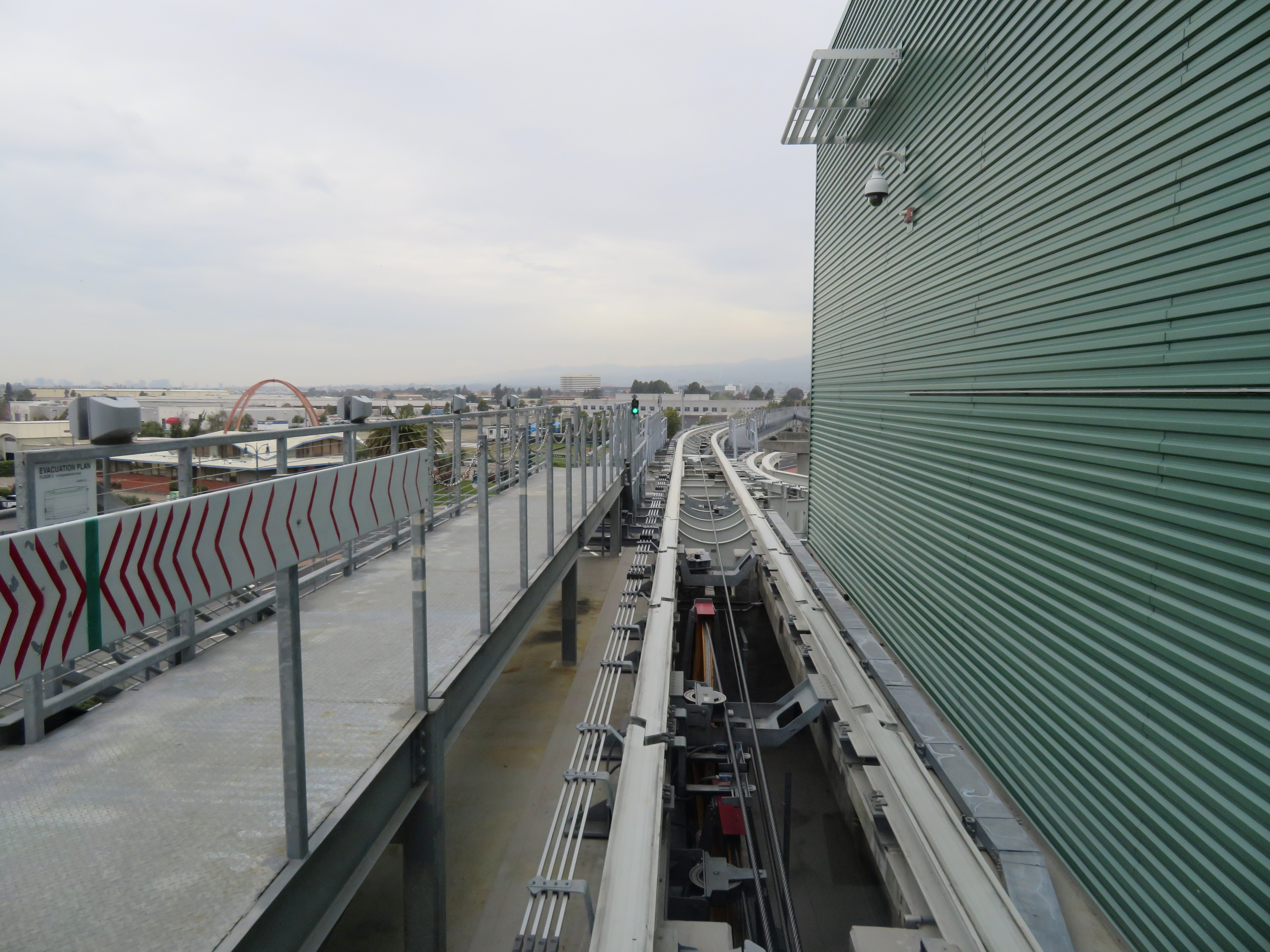 Location of proposed platform at Doolittle Maintenance and Storage Facility in March 2018